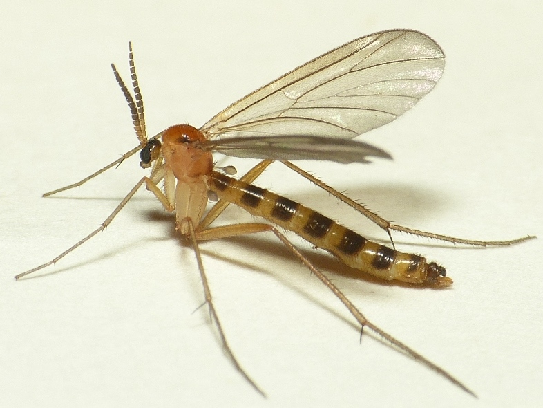 Symmerus annulatus, location: The Netherlands - Rhenen - Blauwe Kamer - Gelderland